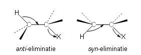 Anti- and syn-elimination